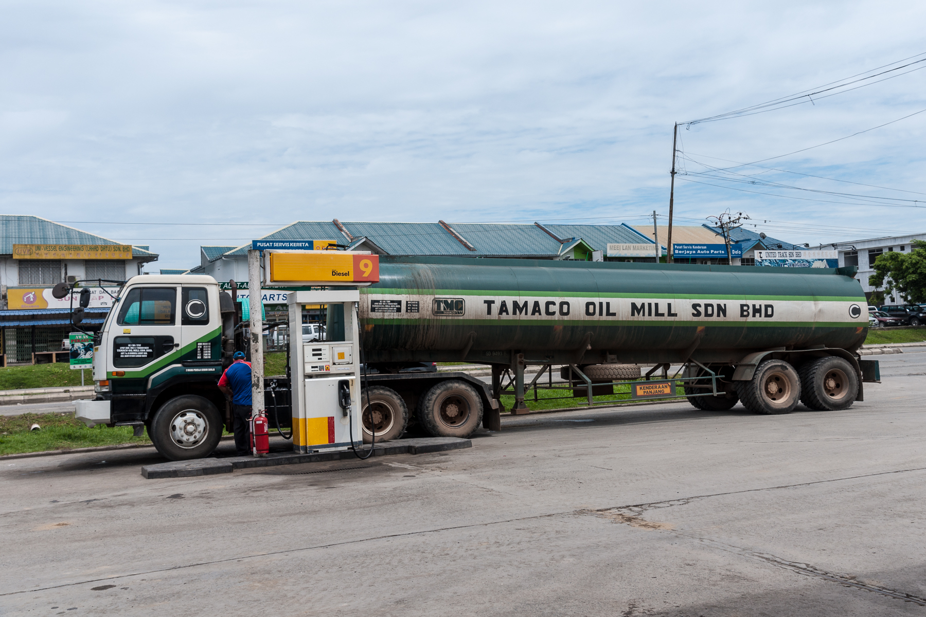 Lahad Datu, Sabah: Truck with Crude Palm Oil from Tamaco Oil Mill Sdn Bhd